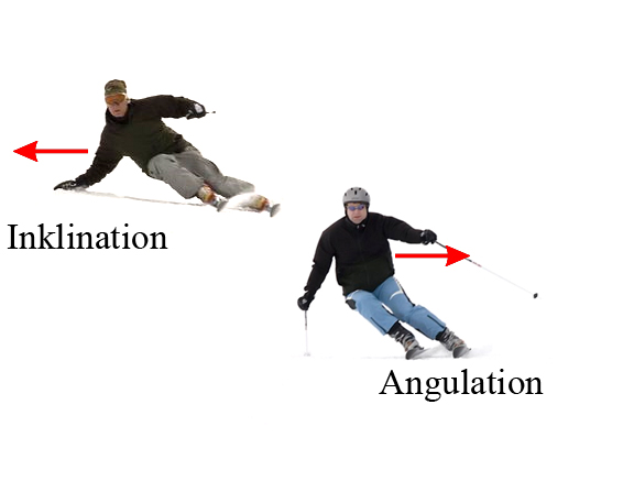 skiing: difference inclination/angulation